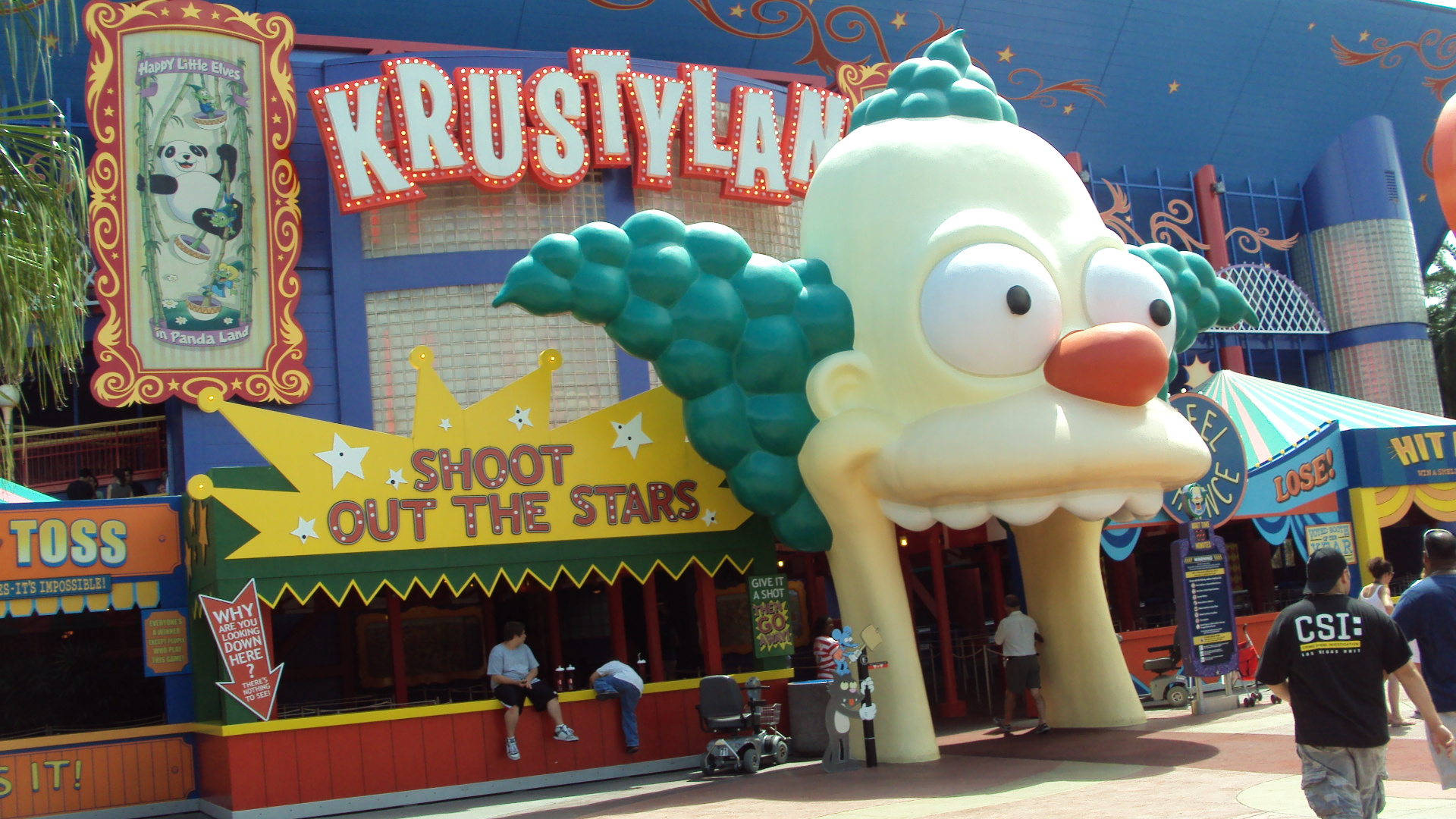 Krustyland at Orlando, FL